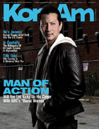 Magazine cover of KoreAm from September 2007, actor Will Yun Lee